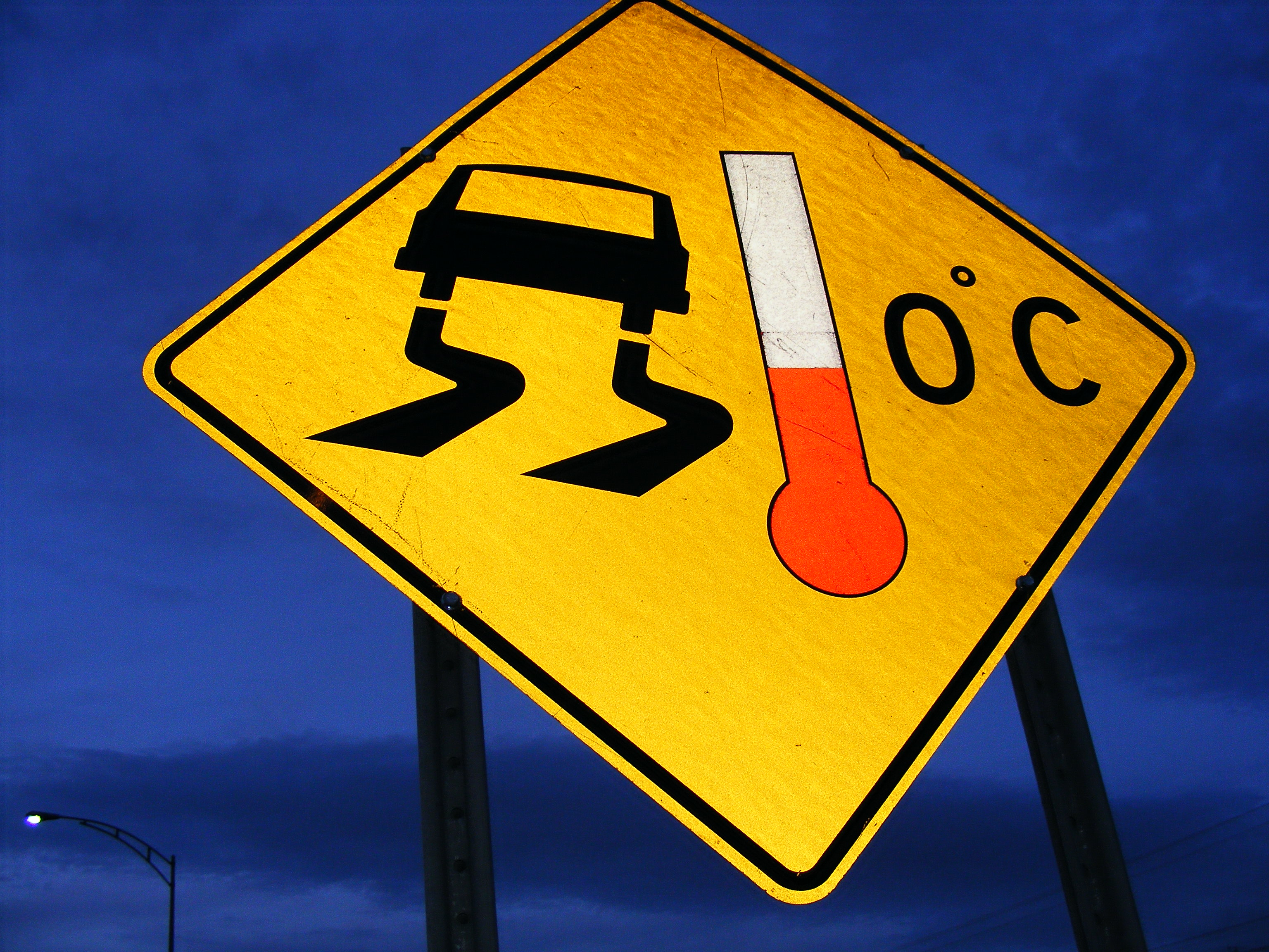 A Quebec road sign warns motorists about icy roads when temperature nears 0 °C (32 °F).